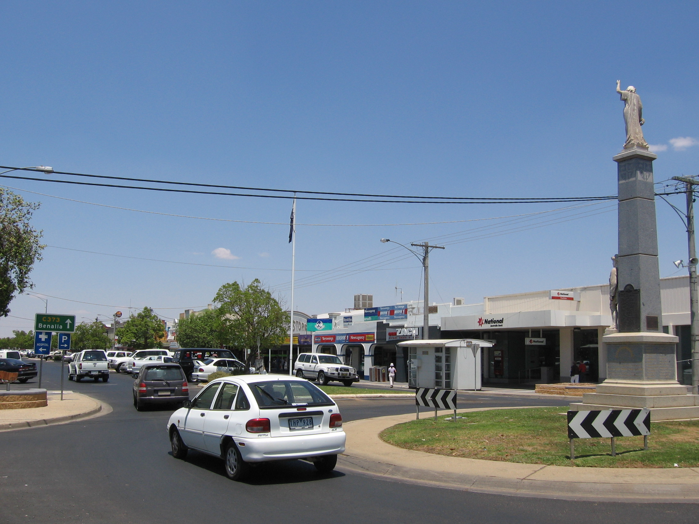 Streetscape, Yarrawonga, Victoria.